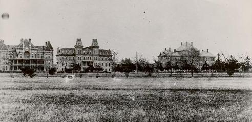 A photo of Texas A&M University, taken in 1902. It shows, left to right, Ross Hall, Old Main, and Foster Hall.